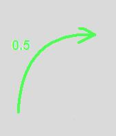 Representation of a current arrow on pilot charts